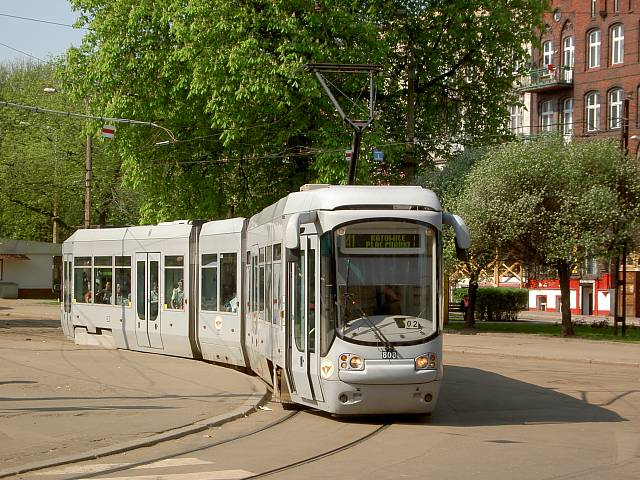 Konstal 116Nd type (aka Citadis 100) car as Route 6 in Bytom.